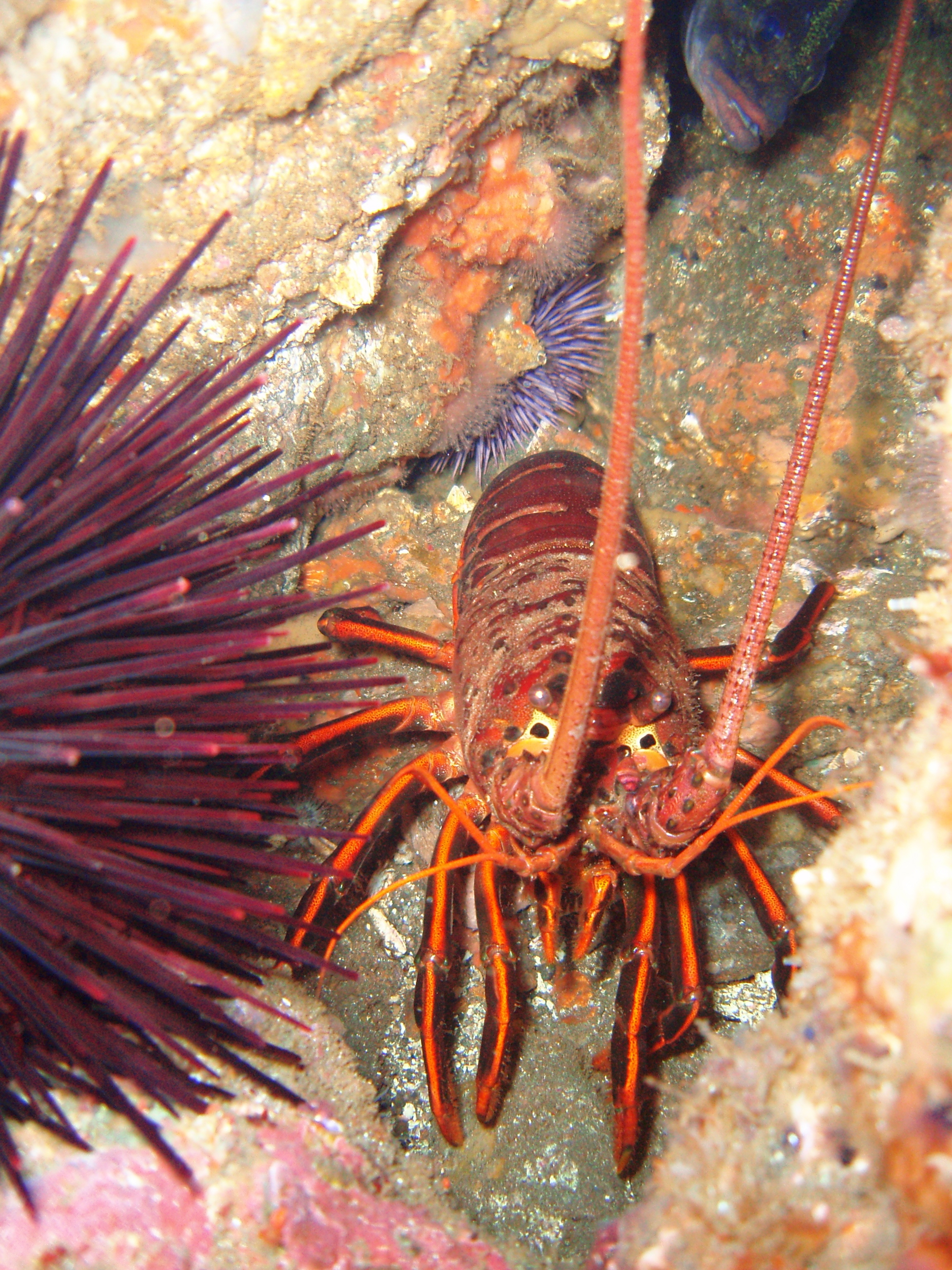 Spiny lobster (Panulirus interruptus)